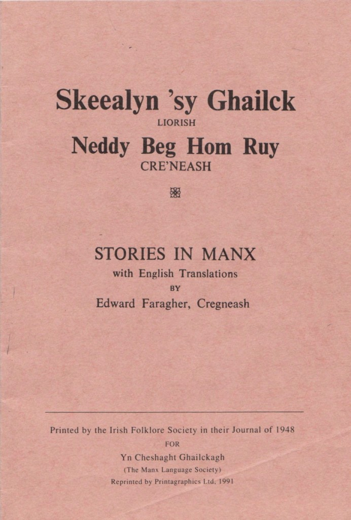 Skeealyn 'sy Ghailck by Edward Faragher, also known as Ned Beg Hom Ruy